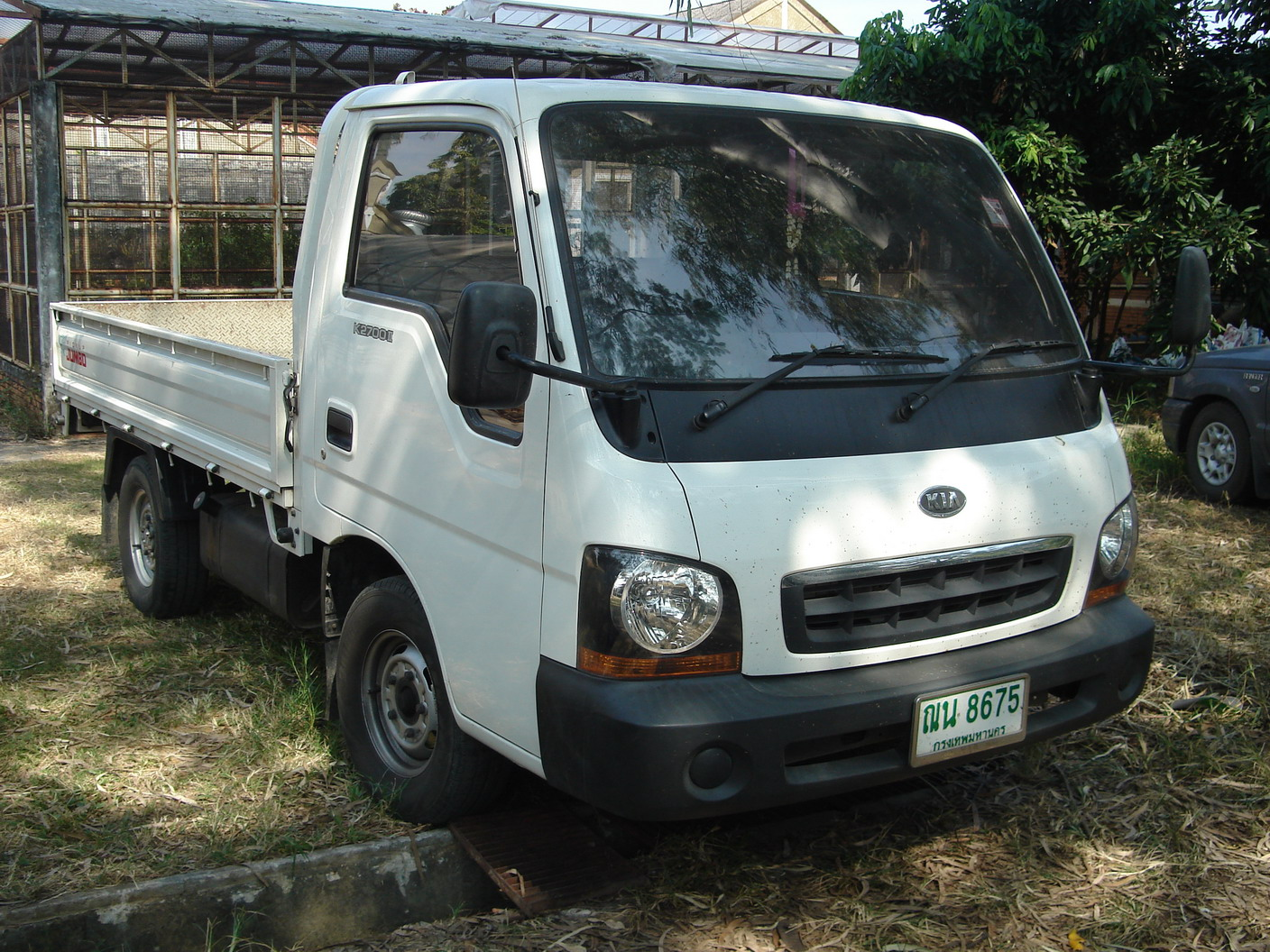 Kia K2700 II (Export label for the Kia Trade) in Chiangmai, Thailand